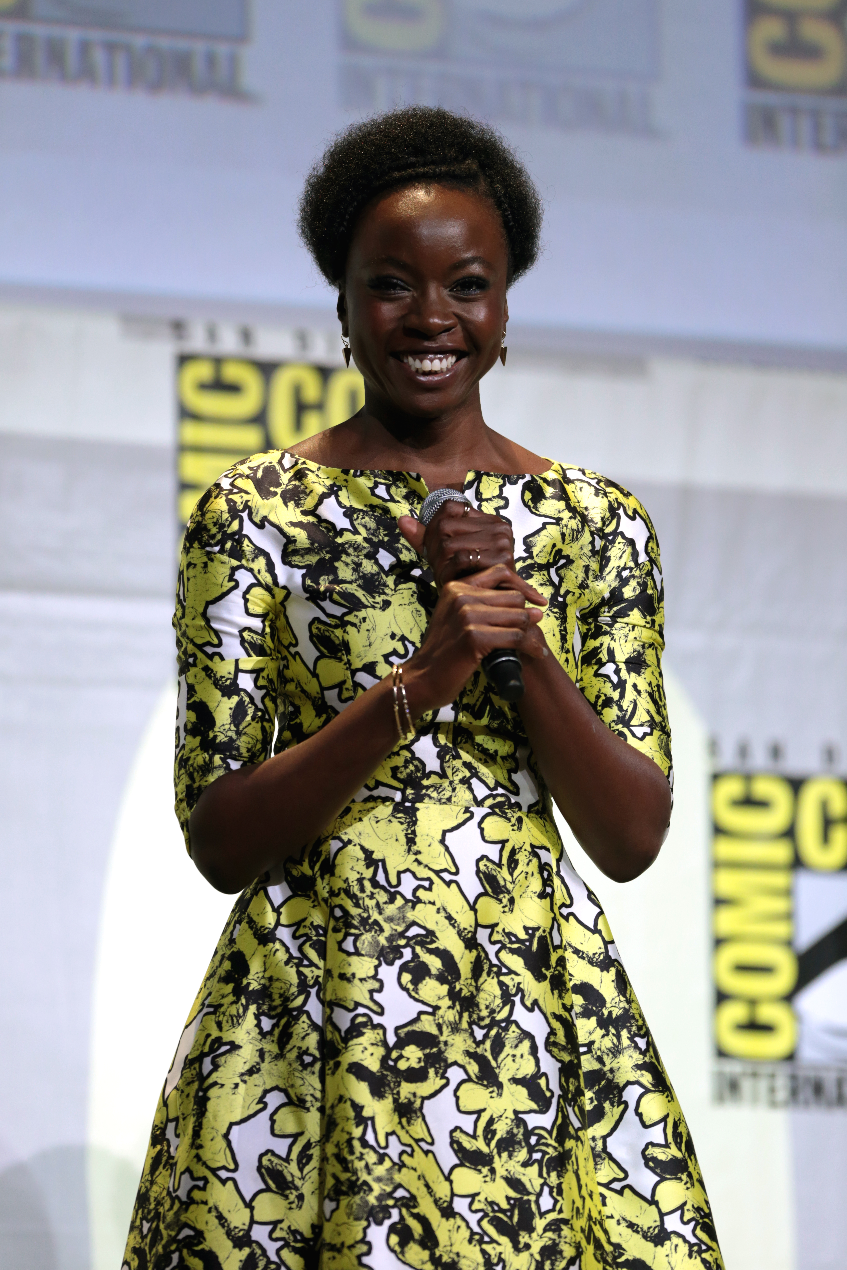 Danai Gurira speaking at the 2016 San Diego Comic Con International, for "Black Panther", at the San Diego Convention Center in San Diego, California.